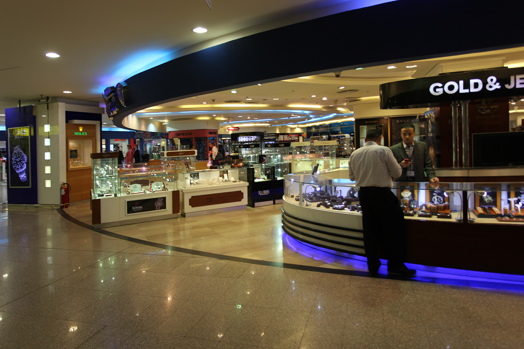 Cairo International Airport, Duty Free at Terminal 3